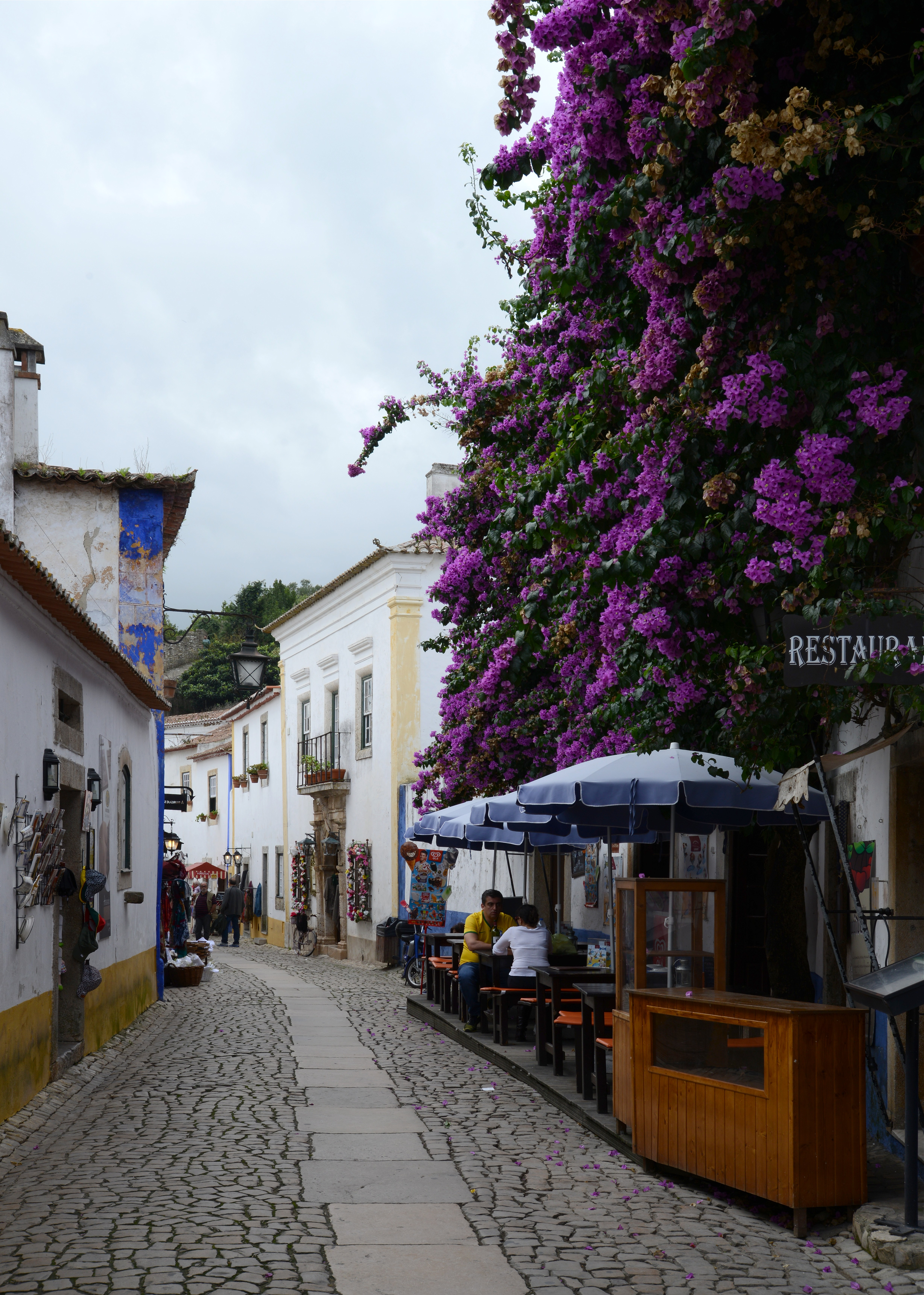 The main street of the medieval town of Óbidos, Portugal